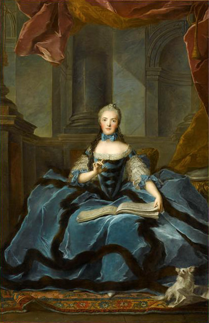 Portrait of Marie Adélaïde of France (1732-1800)